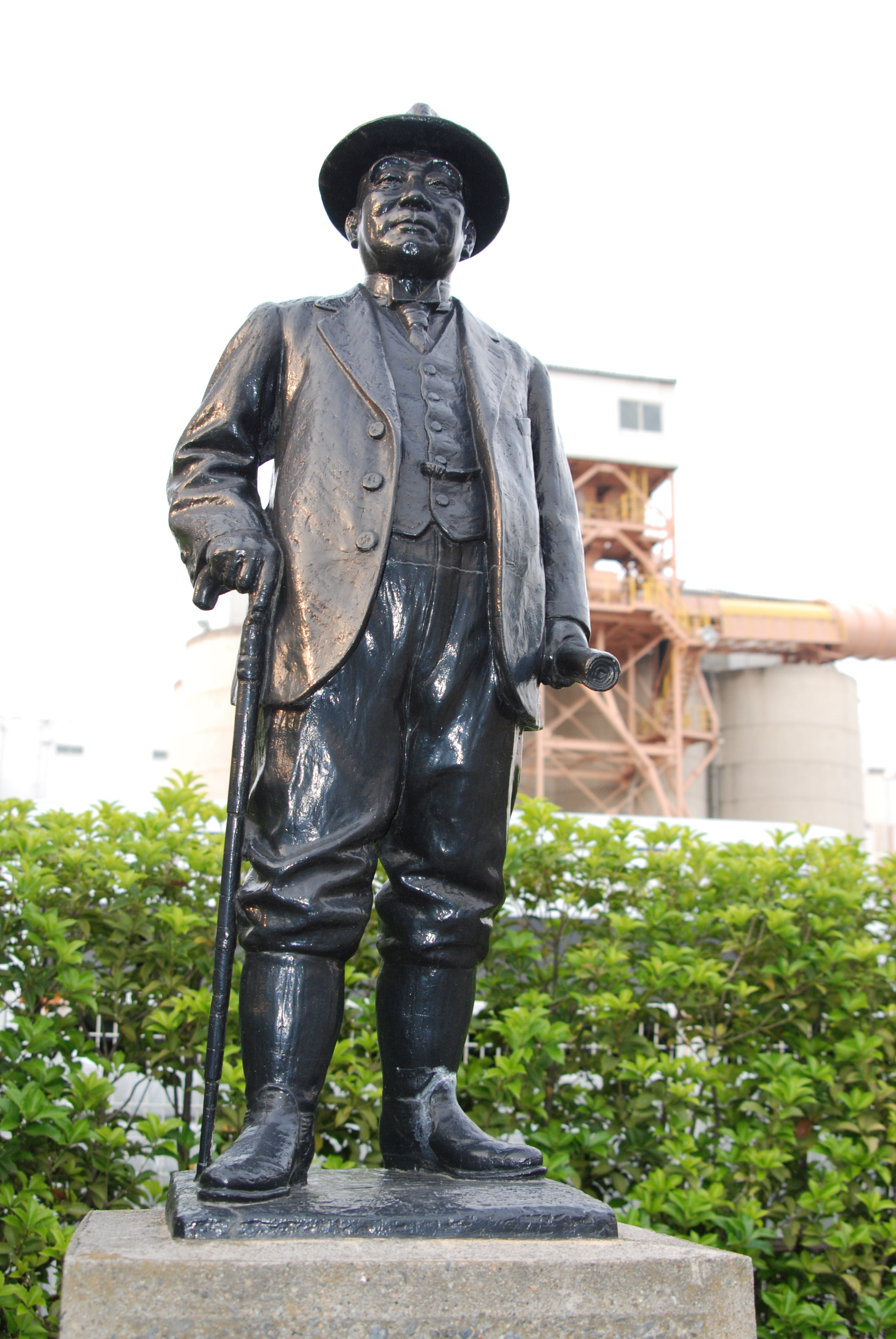 The statue of the late Mr. Soichiro Asano